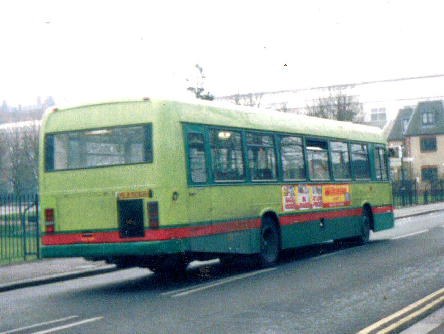 A London & Country bus in Windsor, Berkshire, 1998. Probably a Leyland National/East Lancs Greenway.